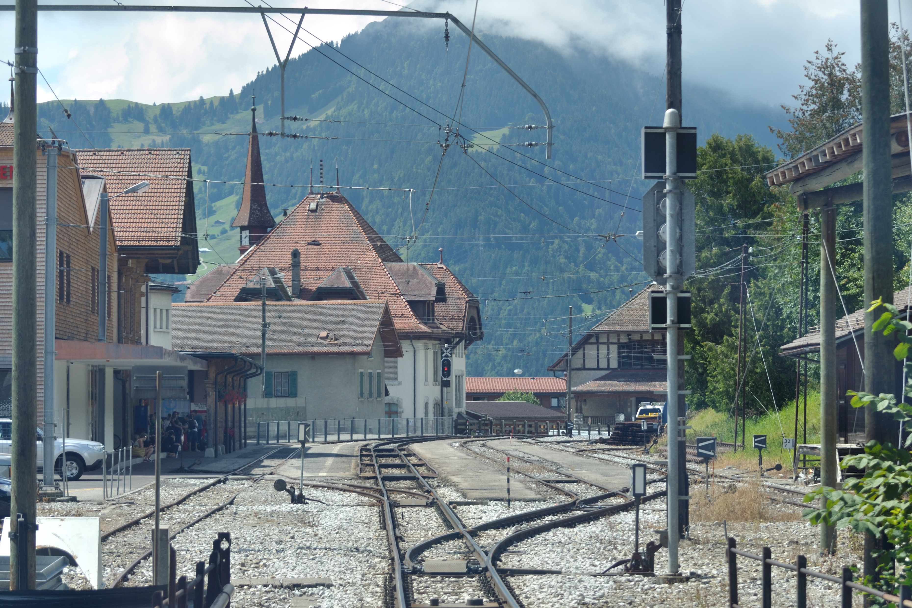 Switzerland, Vaud, impressions from the drivers cabin on the Chemin de fer Montreux Oberland bernois. For exact location see geodata.